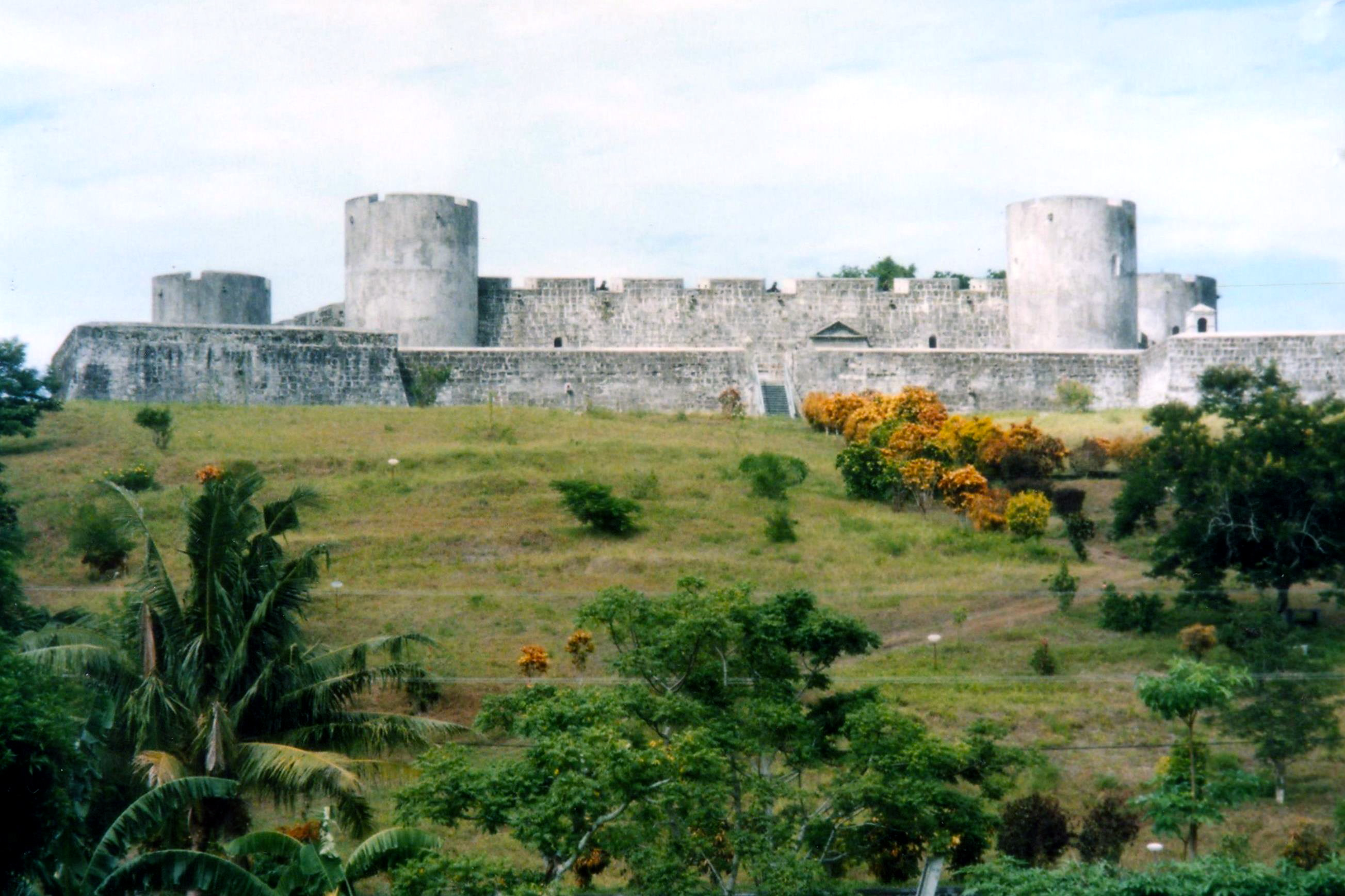 Scanned photo of Fort Belgica in the Banda Islands taken in late January 1998